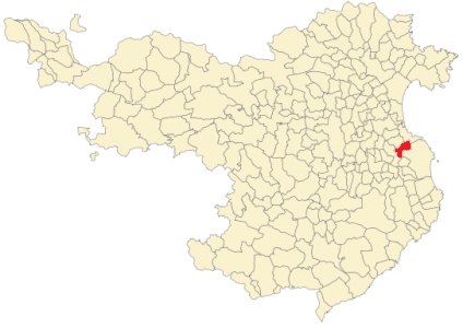 Bellcaire d'Èmpurdia